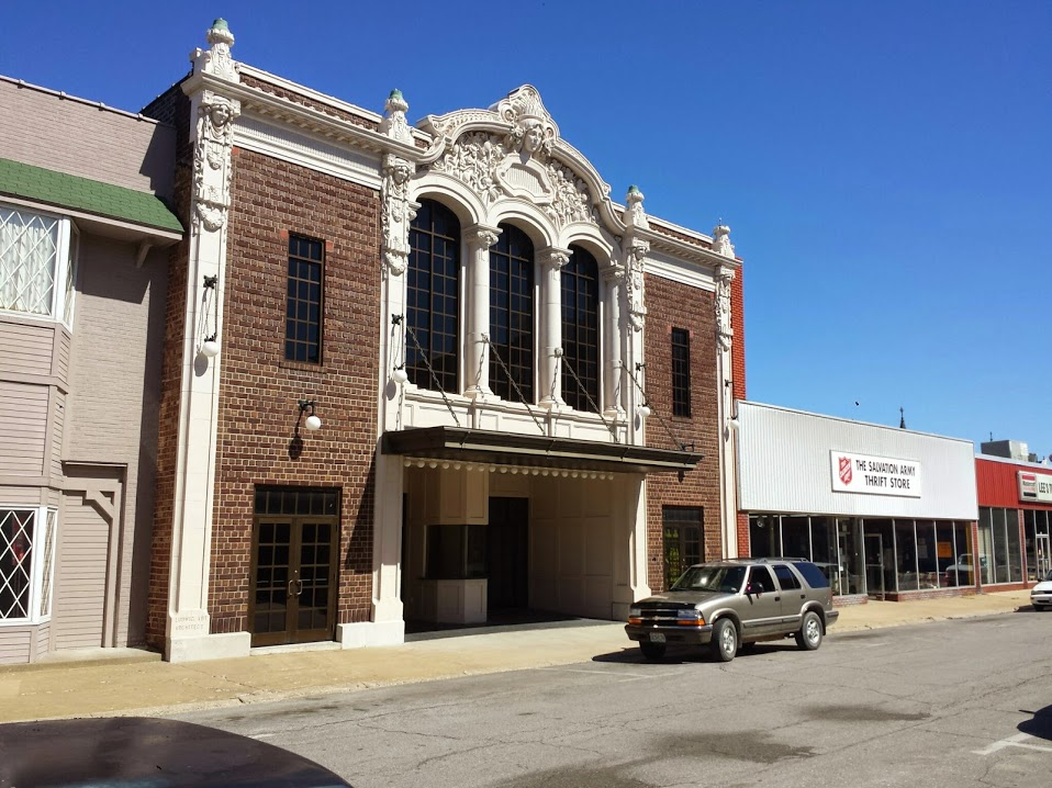 The facade of the historic 4th Street theater in downtown Moberly, MO. Built in 1913; one of the oldest still working movie theaters (possibly the oldest still existing).